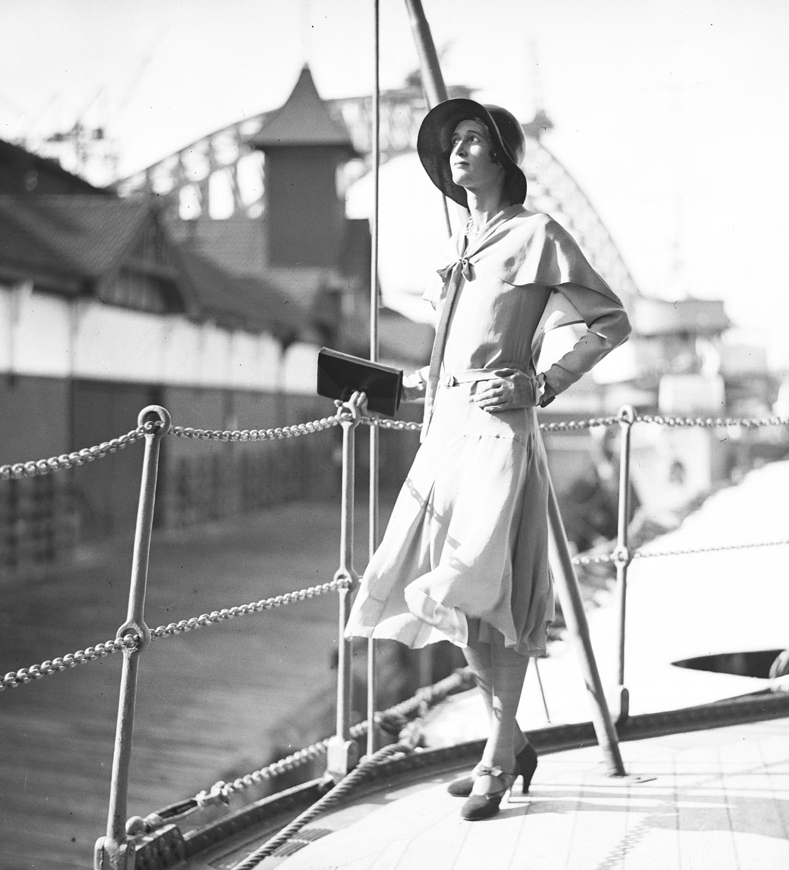 Check out our blog on Hera Roberts as well as a more detailed article in the museum's publication, Signals. The Koninklijke Marine (Royal Netherlands Navy) including HNLMS JAVA, HNLMS EVERSTEN and HNLMS DE RUYTER arrived in Sydney on 3 October 1930. The ships berthed at the Oceanic Steamship Company wharf and Burns Philp and Company Wharf in West Circular Quay. The Sydney Morning Herald reported on the 'unfamiliar spectacle' of the Dutch squadron arrival. On 10 October, the squadron hosted a reception on board JAVA 'as a return for the hospitality they had received while in Sydney'. The SMH reported that distinguished guests were greeted by the Dutch Consul-General Petrus Ephrem Teppema, Madame Carmen Delprat Teppema and Rear-Admiral Kayser. This photo is part of the Australian National Maritime Museum’s Samuel J. Hood Studio collection. Sam Hood (1872-1953) was a Sydney photographer with a passion for ships. His 60-year career spanned the romantic age of sail and two world wars. The photos in the collection were taken mainly in Sydney and Newcastle during the first half of the 20th century. The ANMM undertakes research and accepts public comments that enhance the information we hold about images in our collection. This record has been updated accordingly. Photographer: Samuel J. Hood Studio Collection Object no. 00034778 Check out our blog on naval visits to Sydney bit.ly/MTtR5H